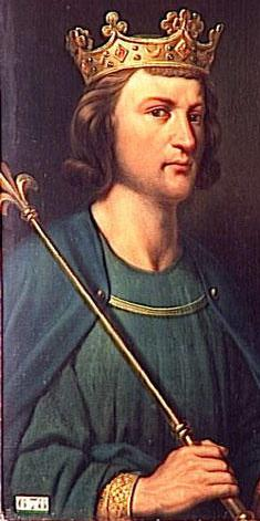 Portraits of Kings of France is a serie of portraits commissioned between 1837 and 1838 by Louis Philippe I and painted by various artists for the Musée historique de Versailles.